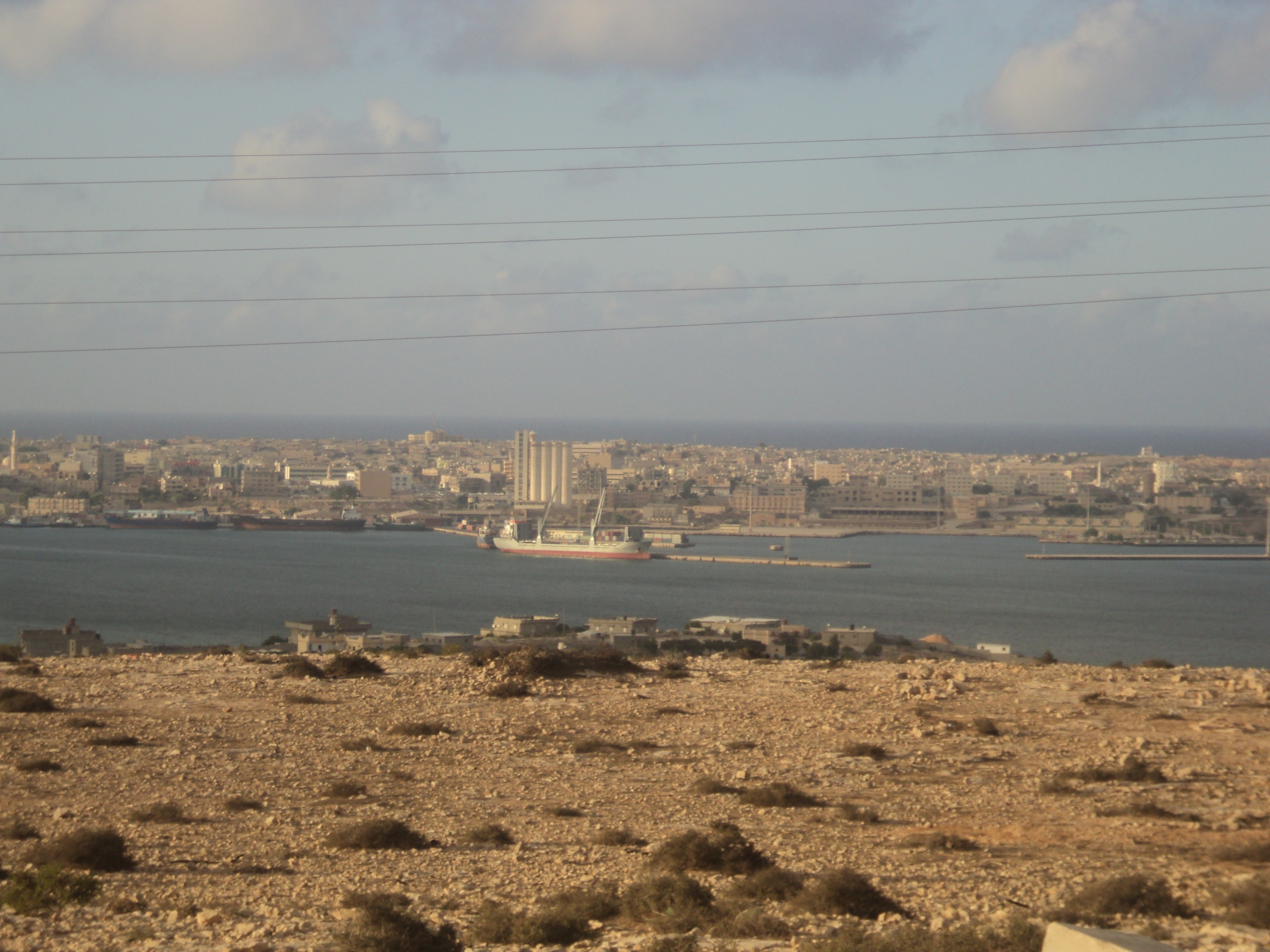 Port of Tobruk.